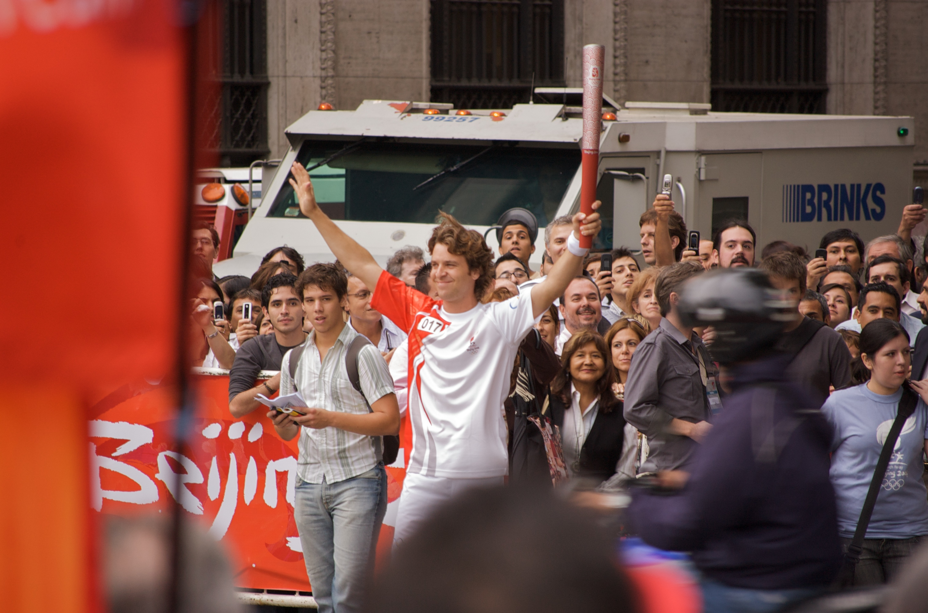 2008 Summer Olympics torch relay in Buenos Aires.